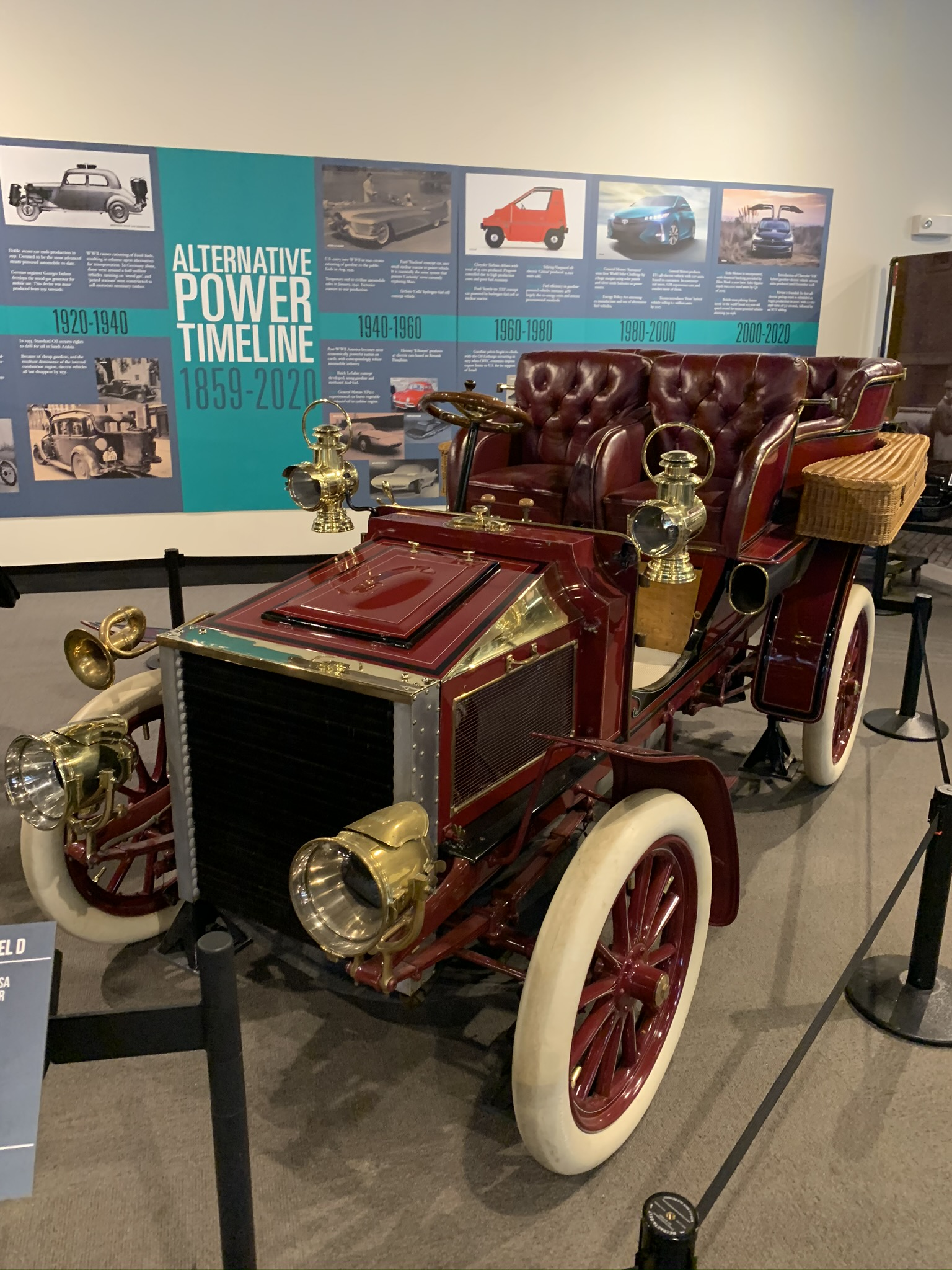 1904 White Model D at Crawford Auto-Aviation Museum